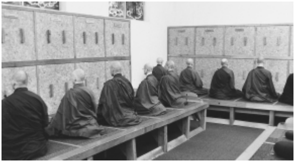 Monks meditating in the Meditation Hall